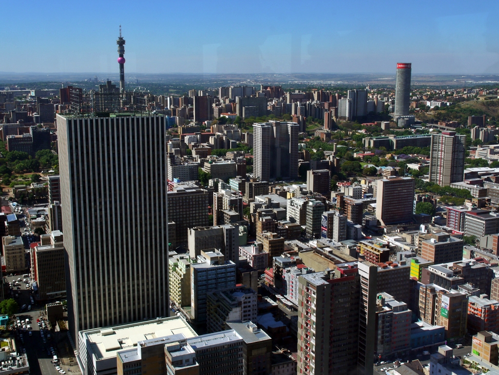 Johannesburg skylines, South Africa.